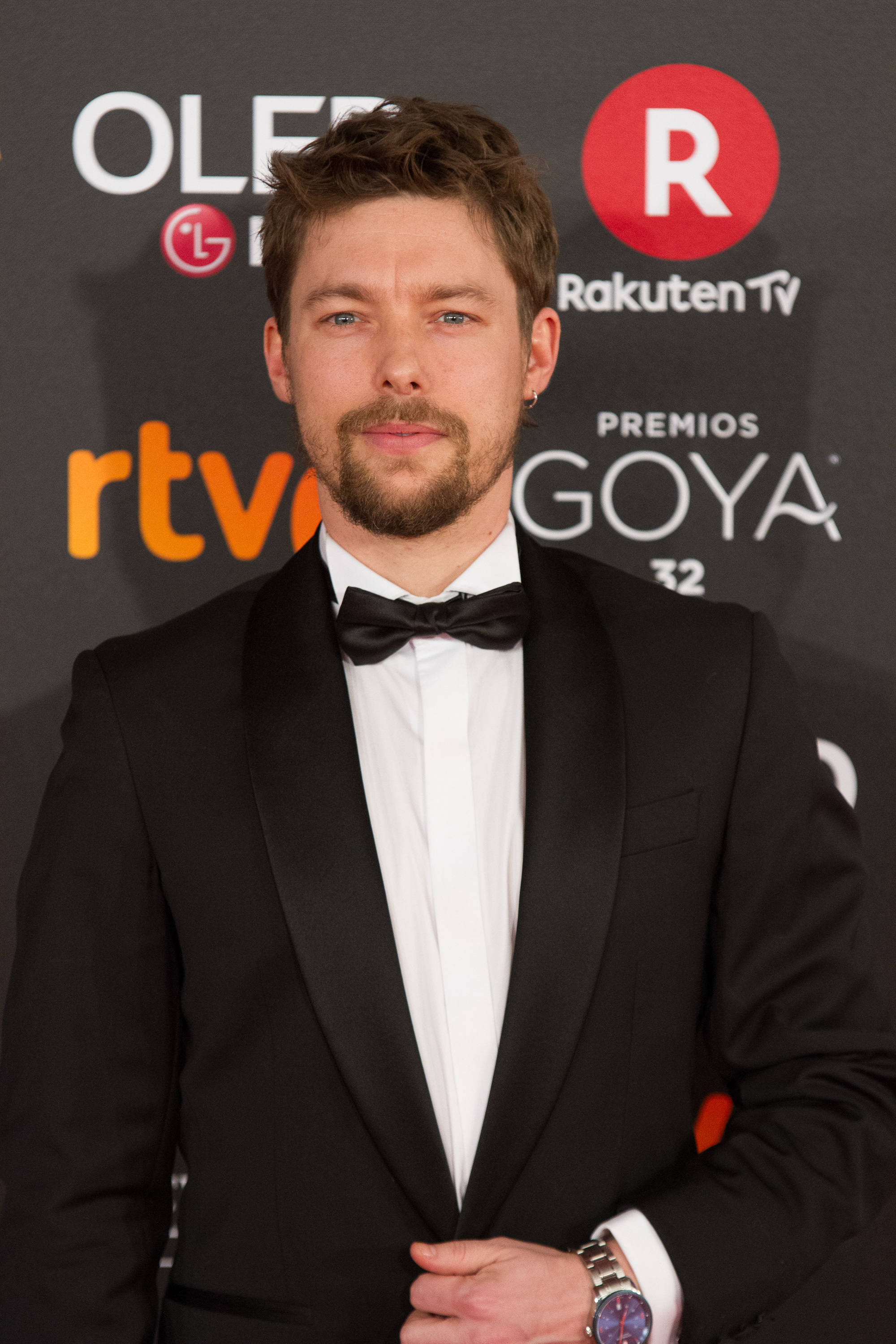 Jan Cornet at the 32nd Goya Awards, 2018.